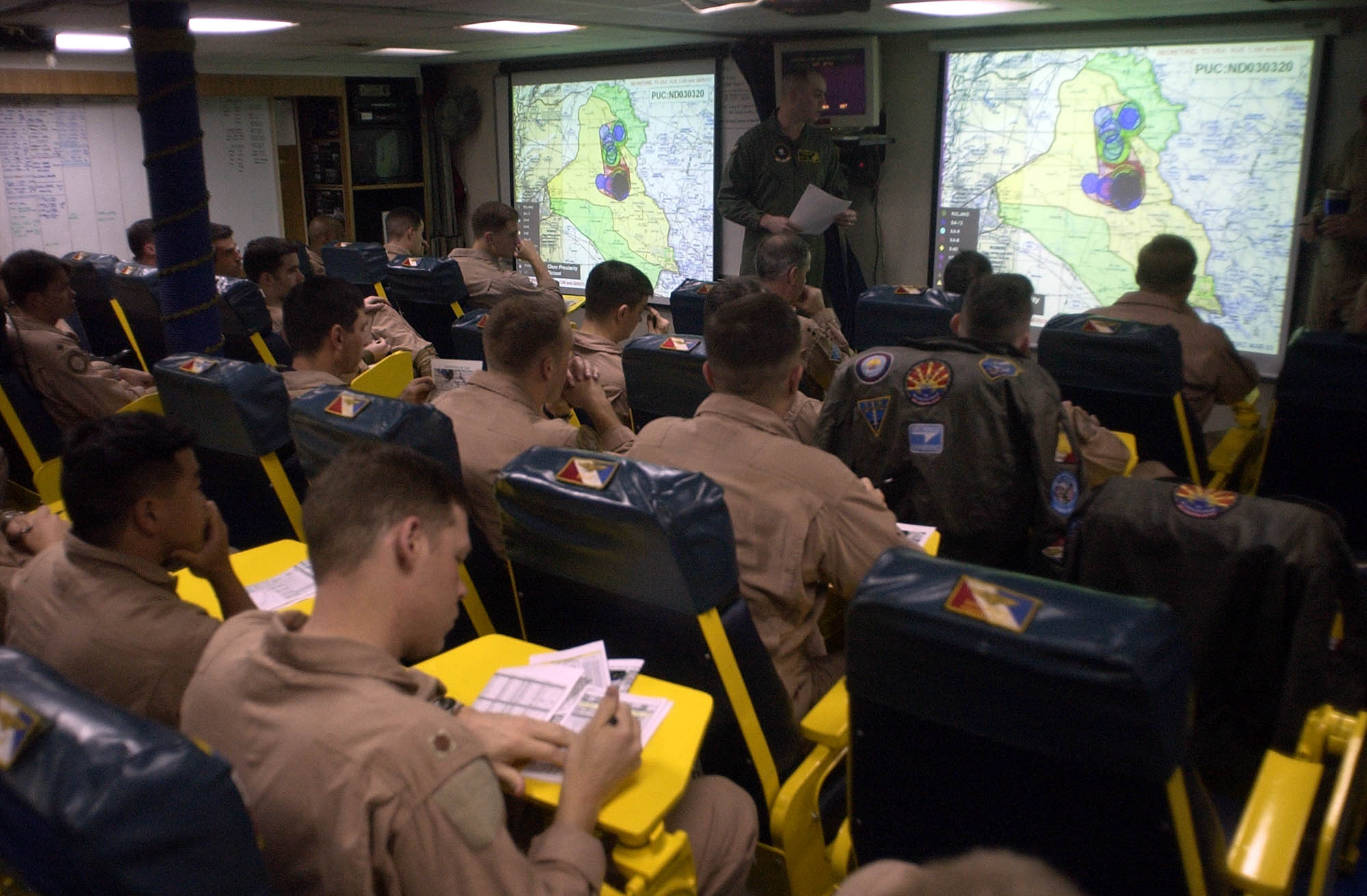 Arabian Gulf (Mar. 21, 2003) -- Pilots assigned to Carrier Air Wing Two (CVW-2) listen to a pre-flight brief in one of the squadron ready rooms aboard USS Constellation (CV 64). Constellation and her embarked CVW-2 are conducting combat missions in support of Operation Iraqi Freedom. U.S. Navy photo by Photographer's Mate 2nd Class Felix Garza Jr. (RELEASED)